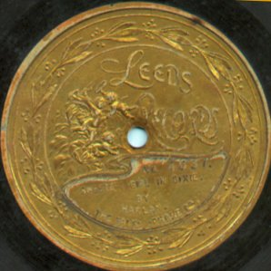 Leeds Talk-o-Phone Record Label, c. 1904. (I'm having trouble getting a decent scan of the gilded label; this'll do for now; I'll try to get a better one later) "Sweetest Girl in Dixie" sung by (Byron G.) Harlan.